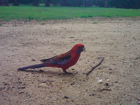 A Scarlet Rosella at Hanging Rock, Victoria, Australia.